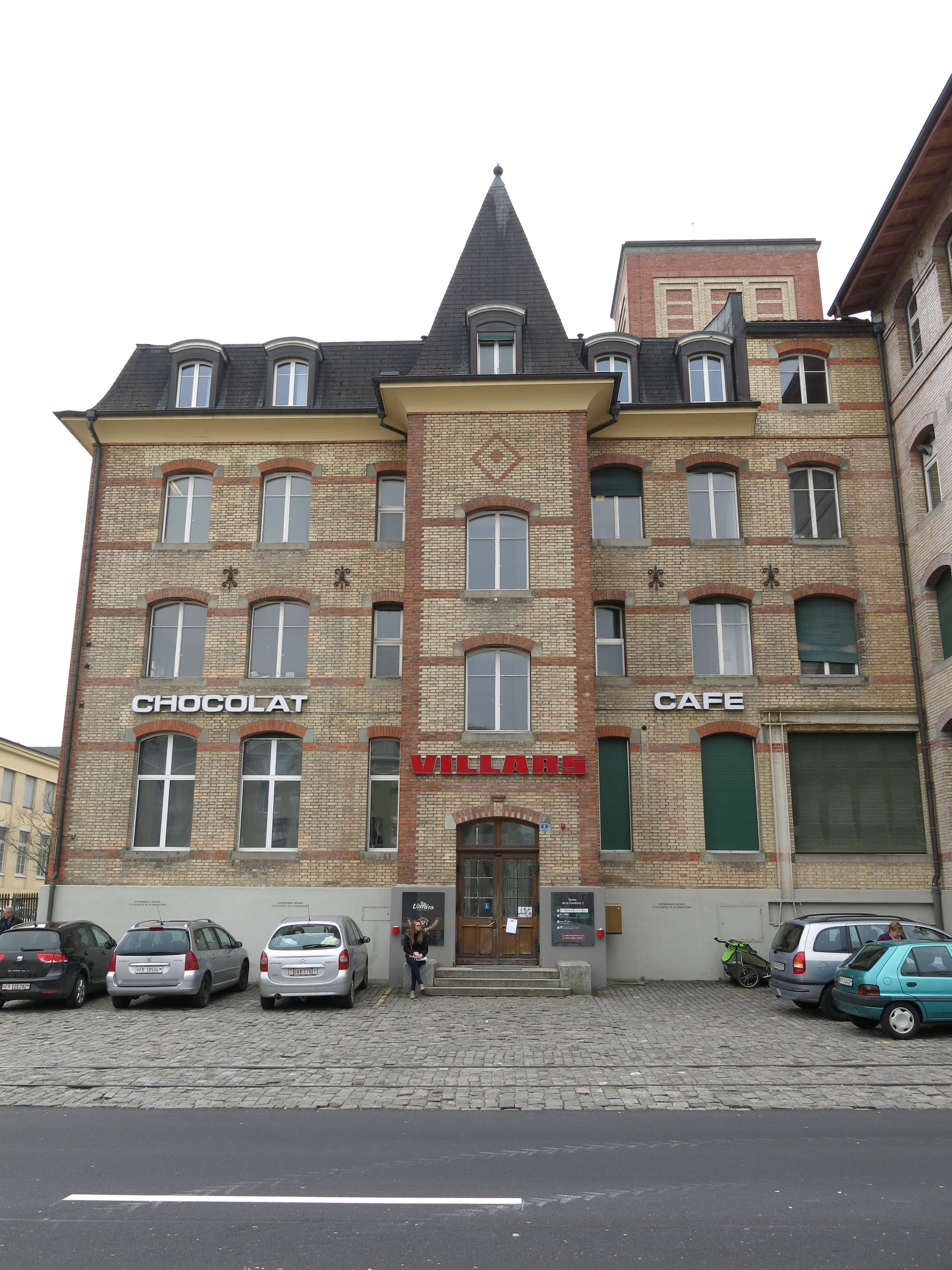 Fribourg, Switzerland